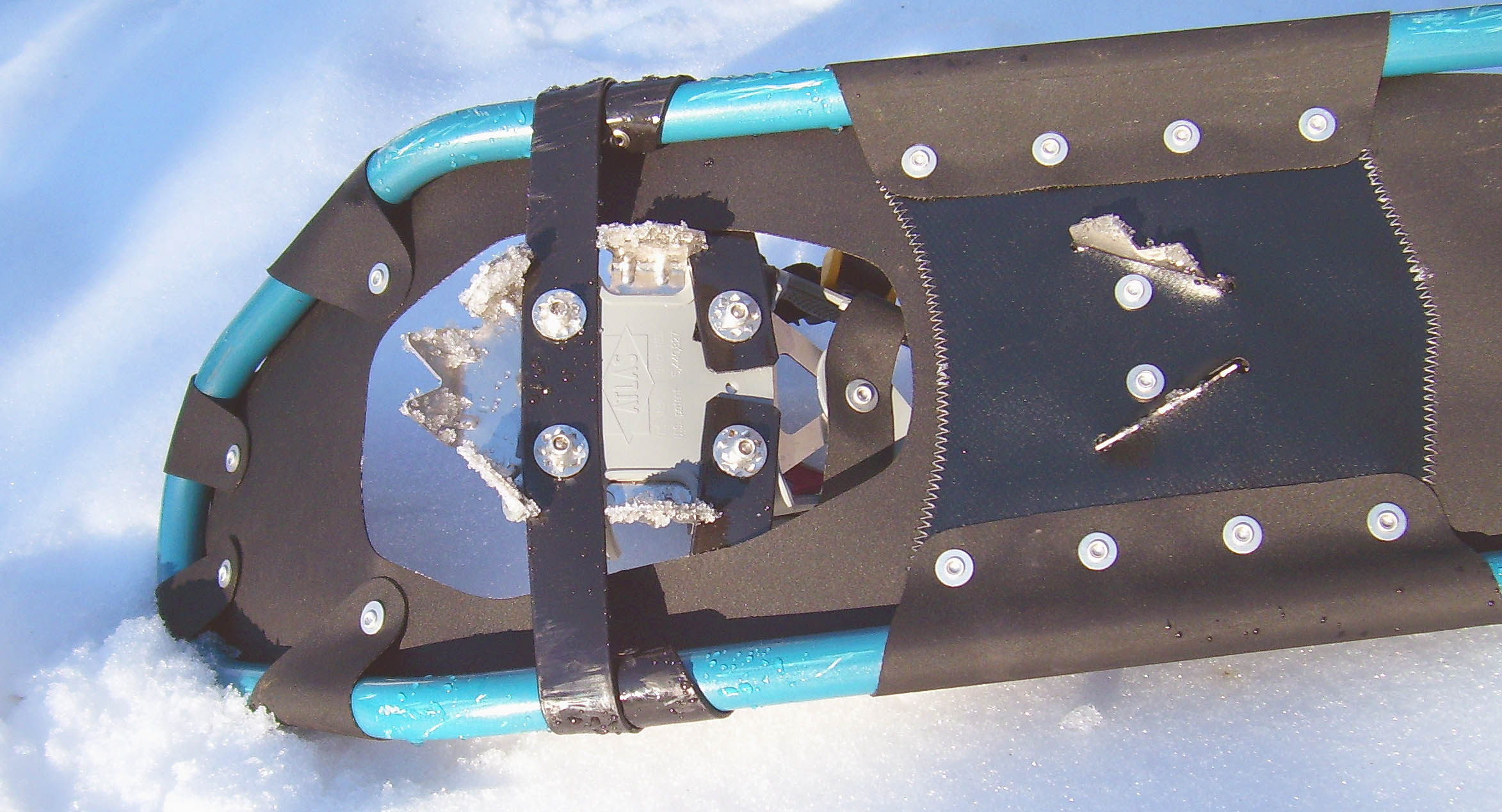 Photographed by Daniel Case 2006-01-20